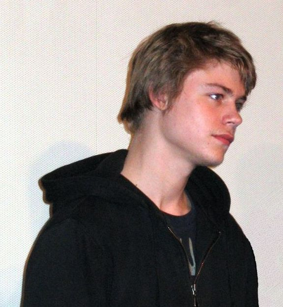 German actor Tom Gramenz after the screening of the film "Beach Boy" during the film festival "Max Ophüls Preis" on 01/23/2011 in Saarbrücken